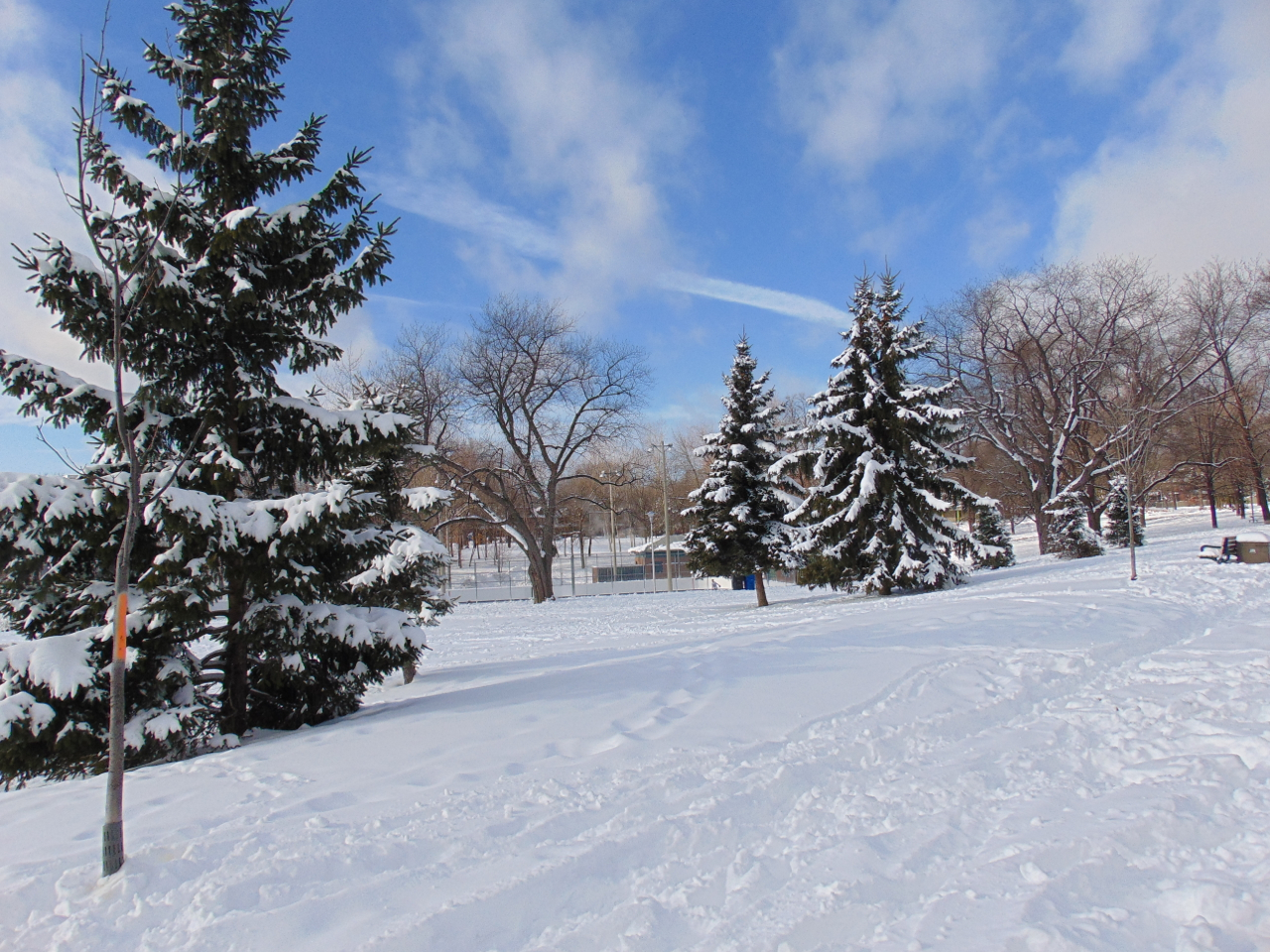 Looking north, centre east side of park